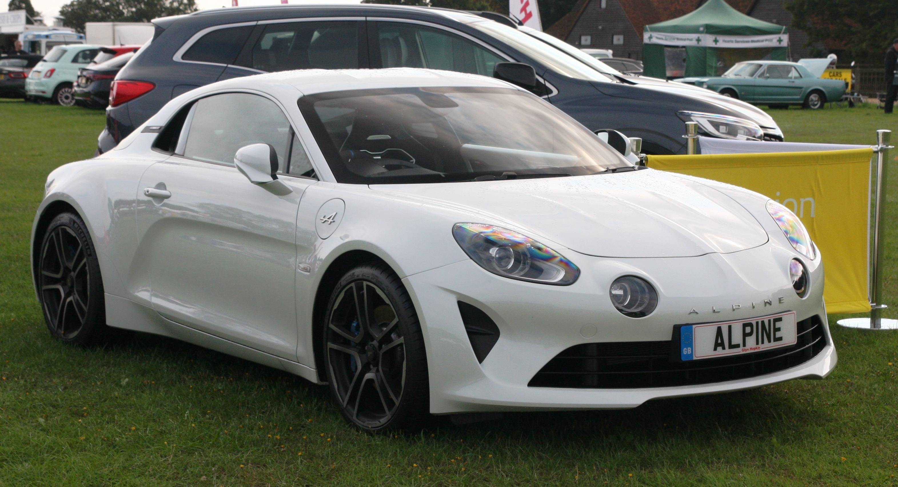 Alpine A110 (2017) qui visite Knebworth (2018)